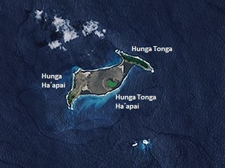 Hunga Tonga-Hunga Haʻapai island in January 2017